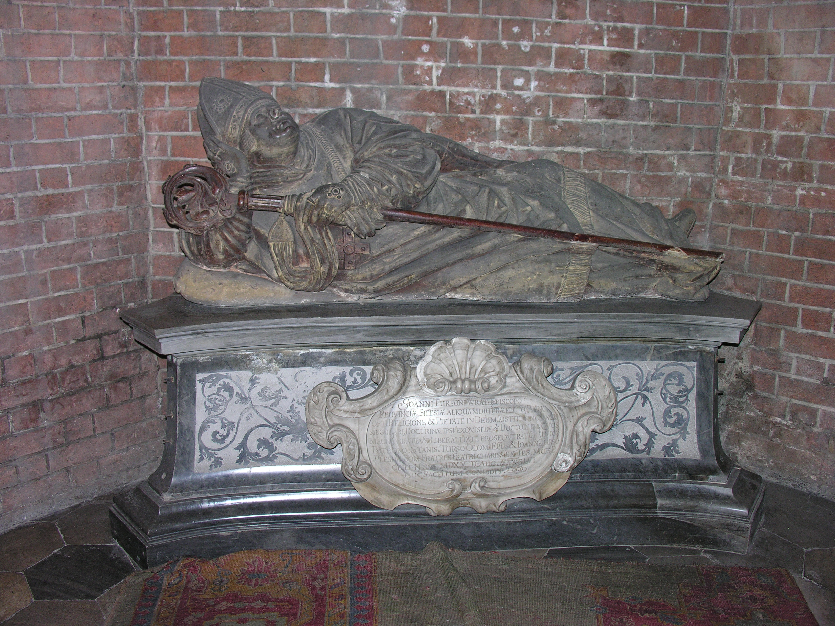 Nagrobek biskupa Jana Thurzona w katedrze wrocławskiej